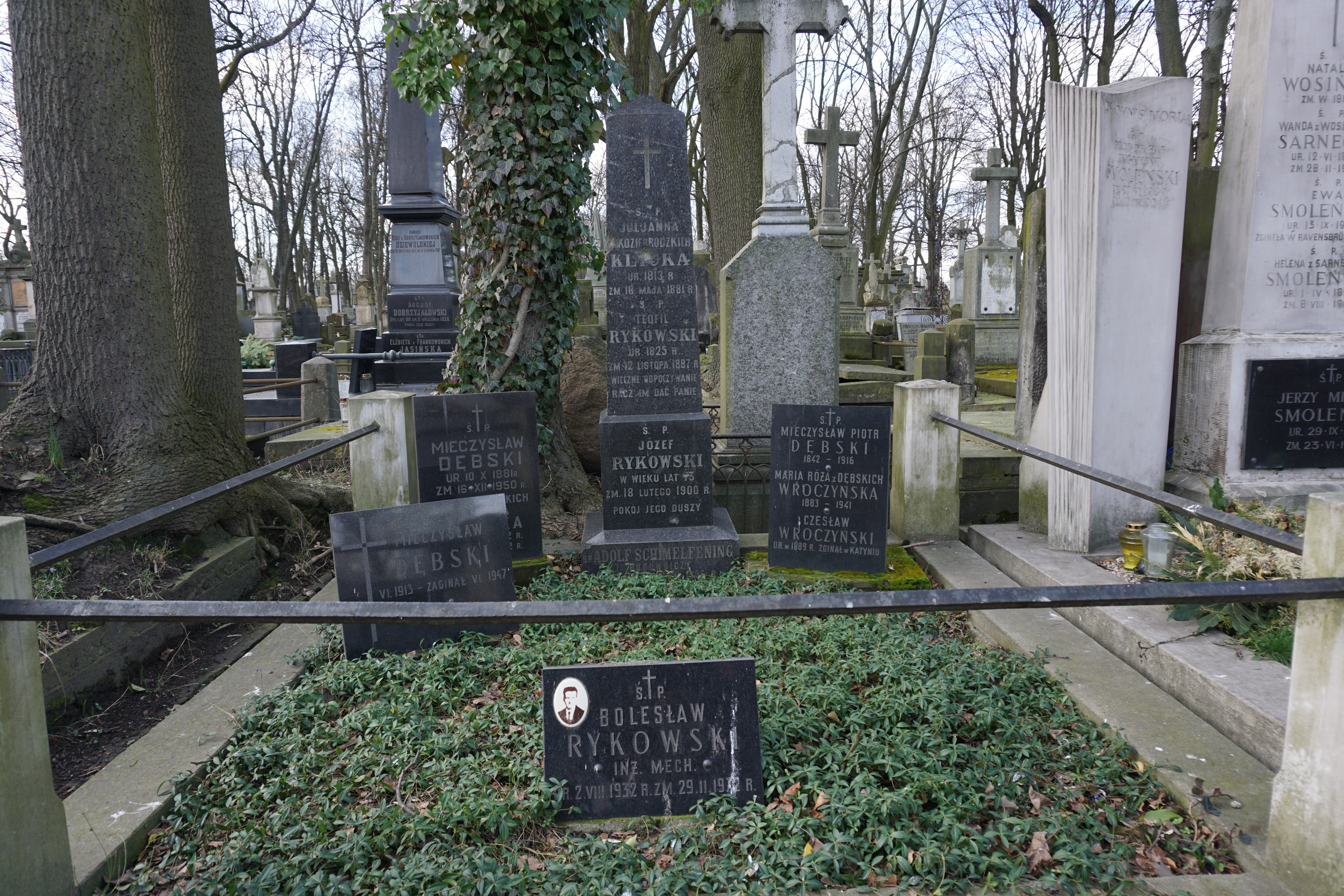 The grave of Adolf Schimmelpfennig at the Powązki Cemetery (section 178, row 1, grave 28, 29)